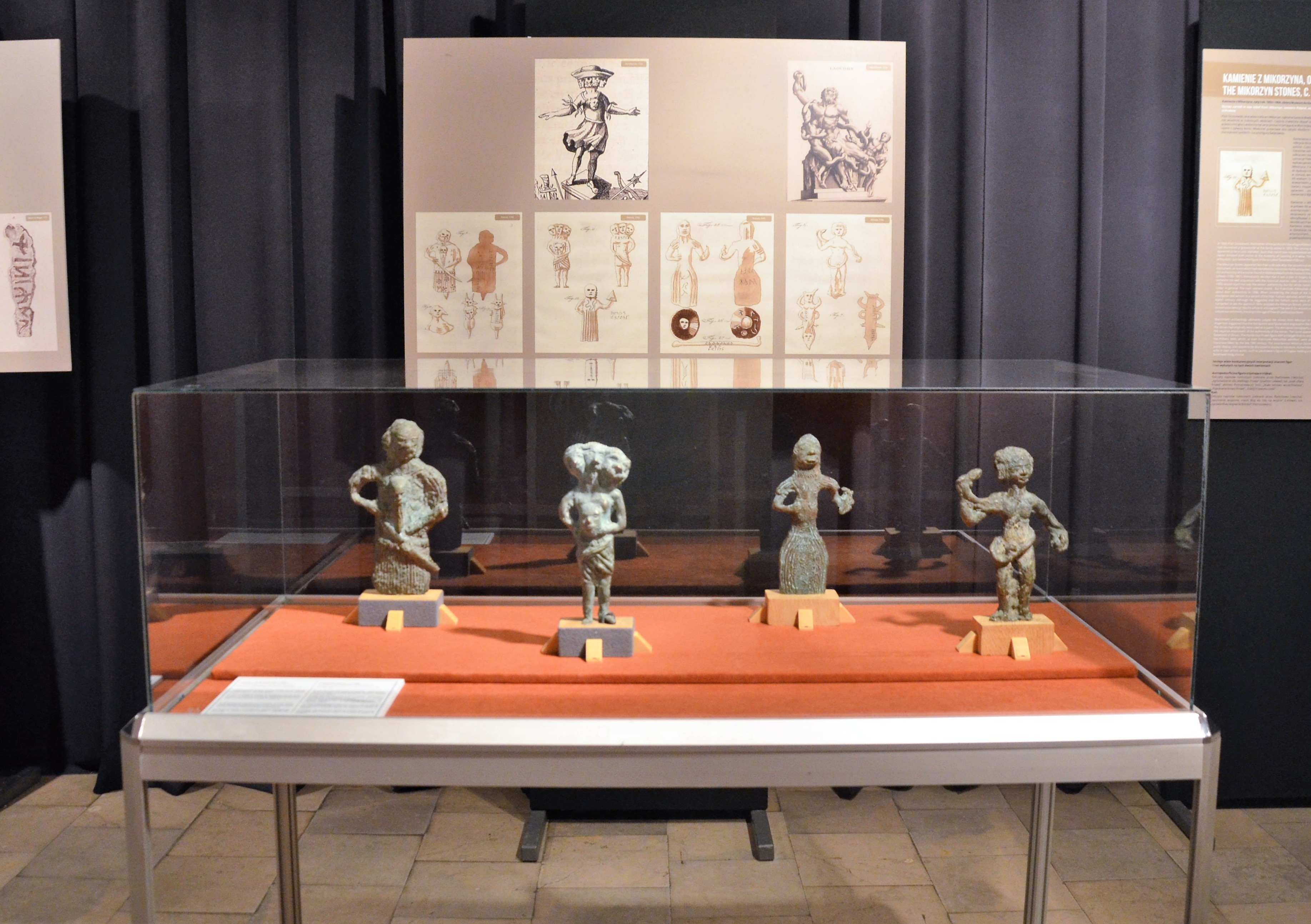 slavic apocrypha, the Prillwitz idols 1794